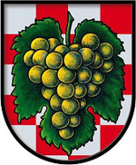 Coat of arms of Gamlitz, Styria